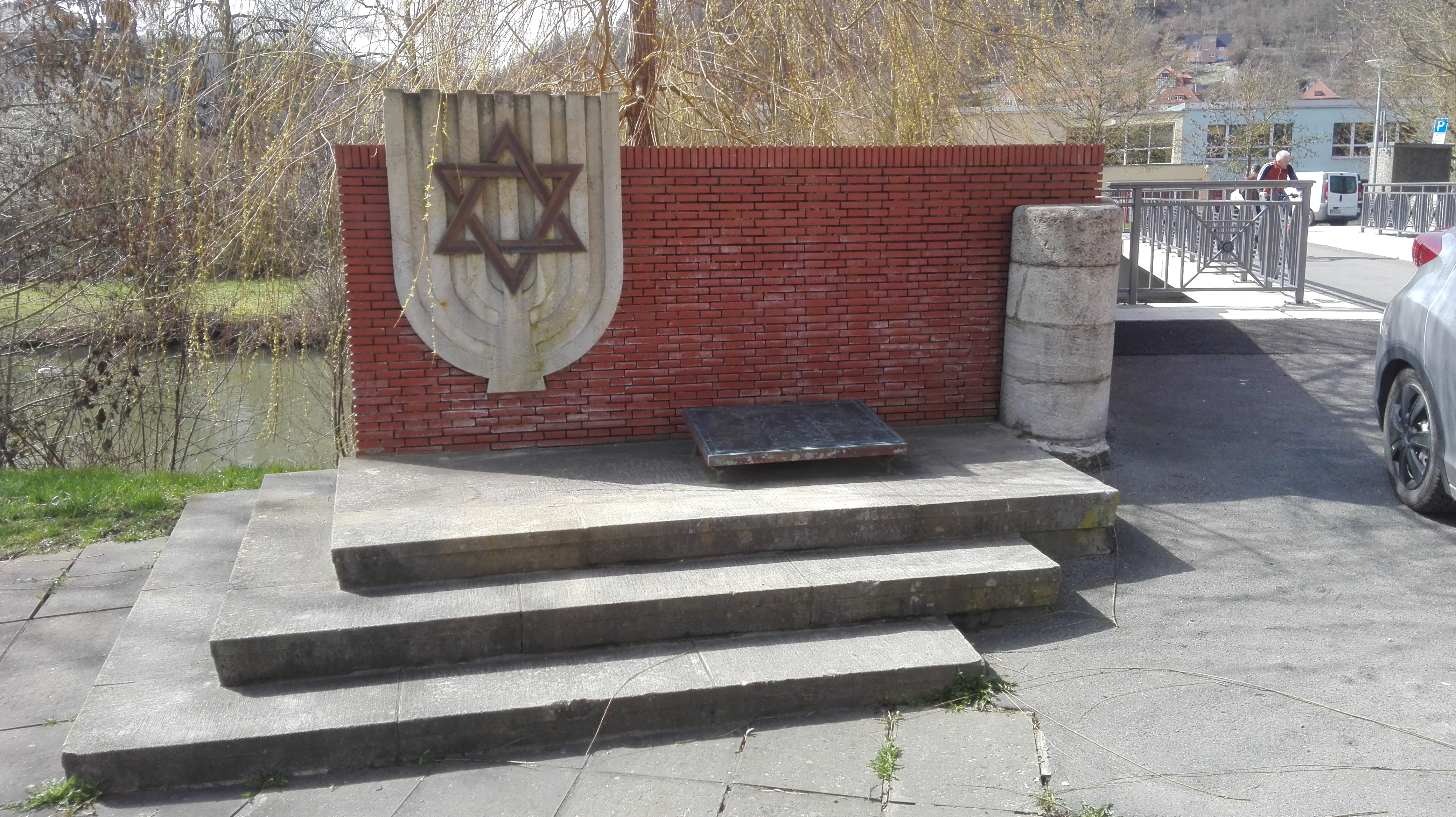 Monument for the destroyed synagogue from the imperial Crystal Night from the 9th of November, 1938.